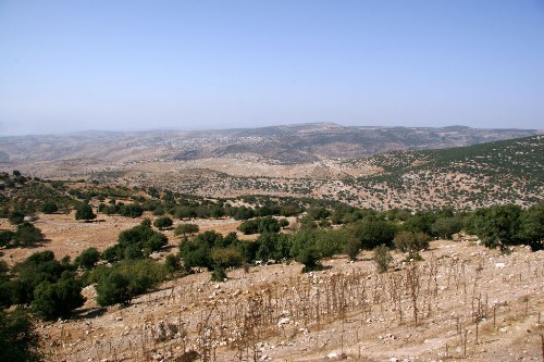 View from Tel Mar Elias. Taken by Nick Fraser in 2005.